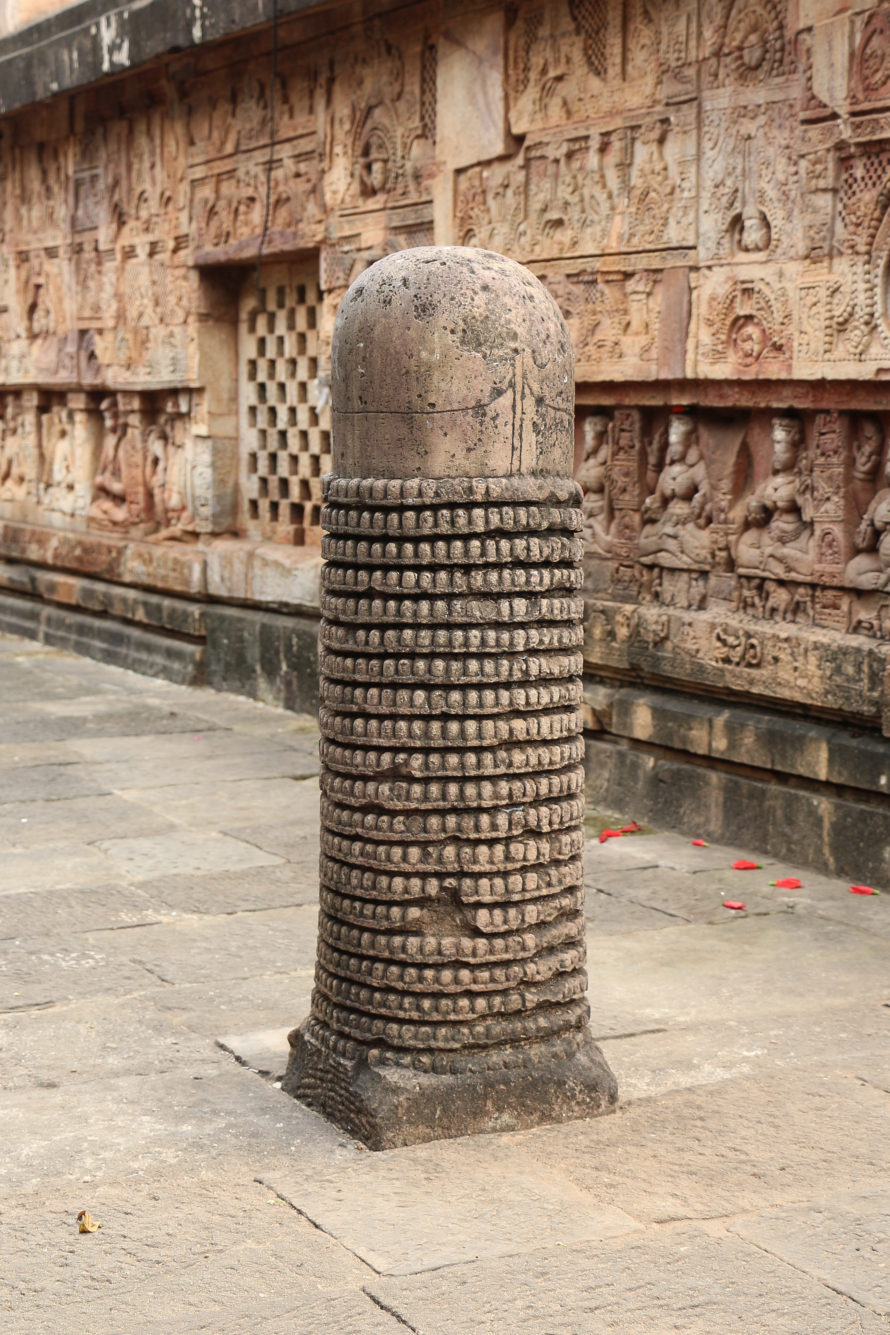 The lingam of Parasuramesvara Temple, Bhubaneswar, India